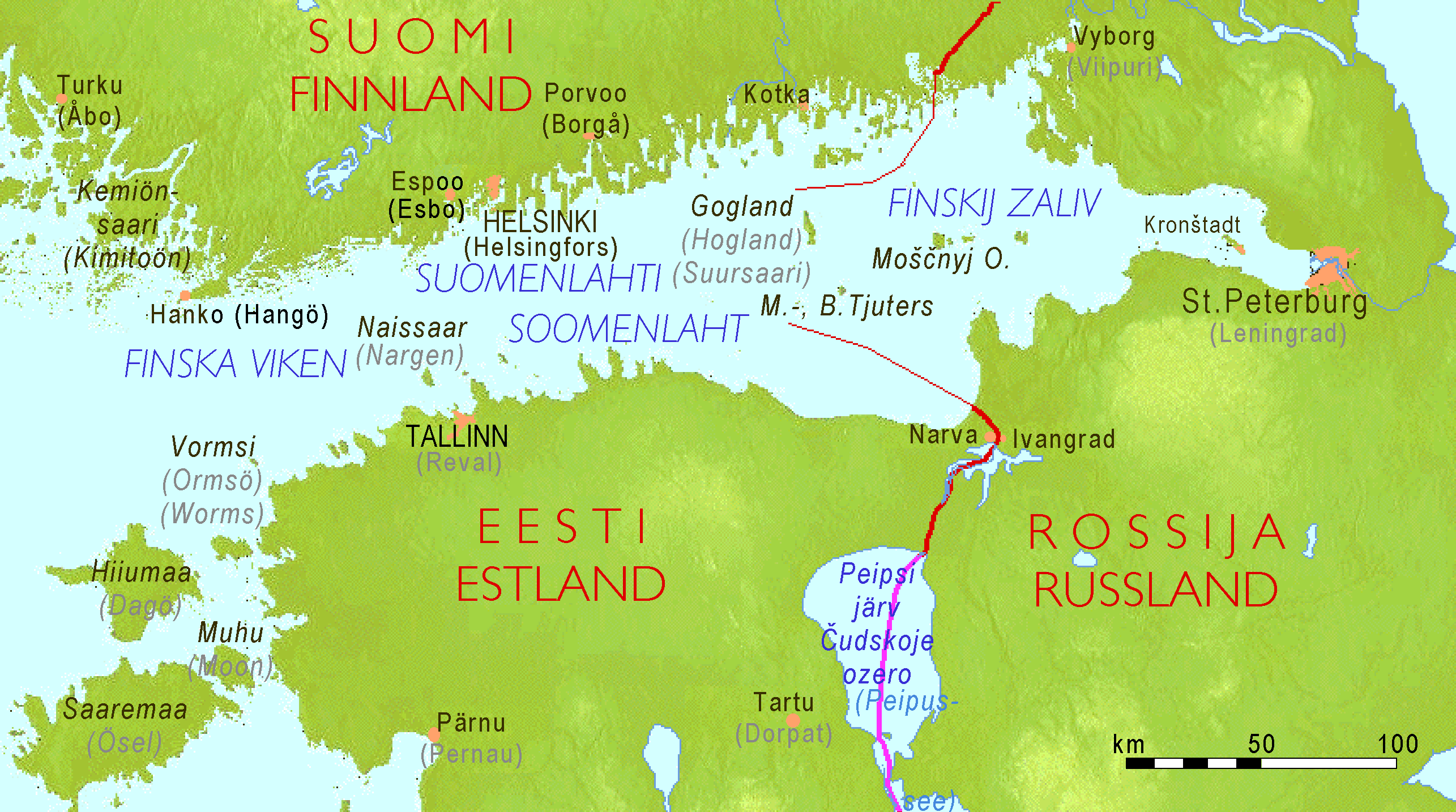 Gulf of Finland